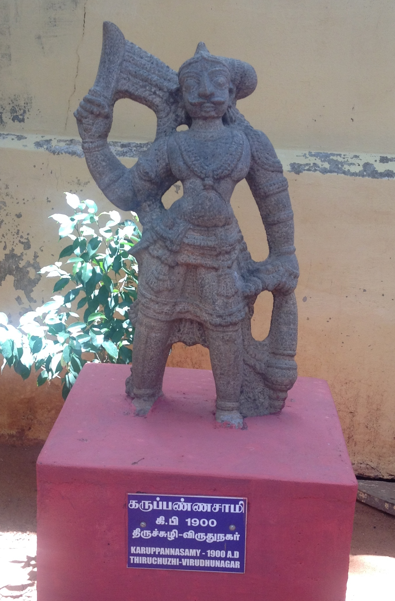 Tirunelveli Govt Museum Exhibit